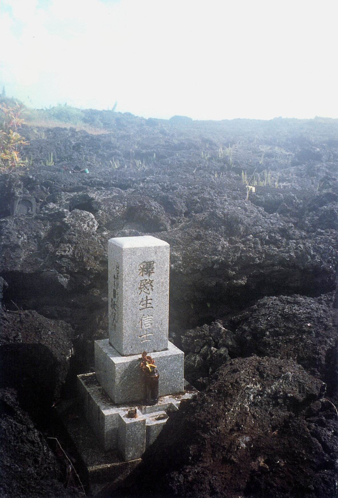 Cemetery in Kapoho, USA, a town that was destroyed by lava.